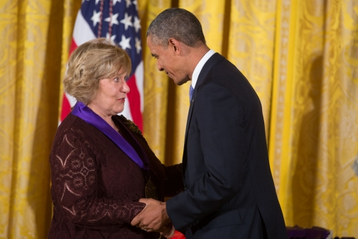 Philanthropist Lin Arison receives the National Medal of Arts from President Barack Obama.